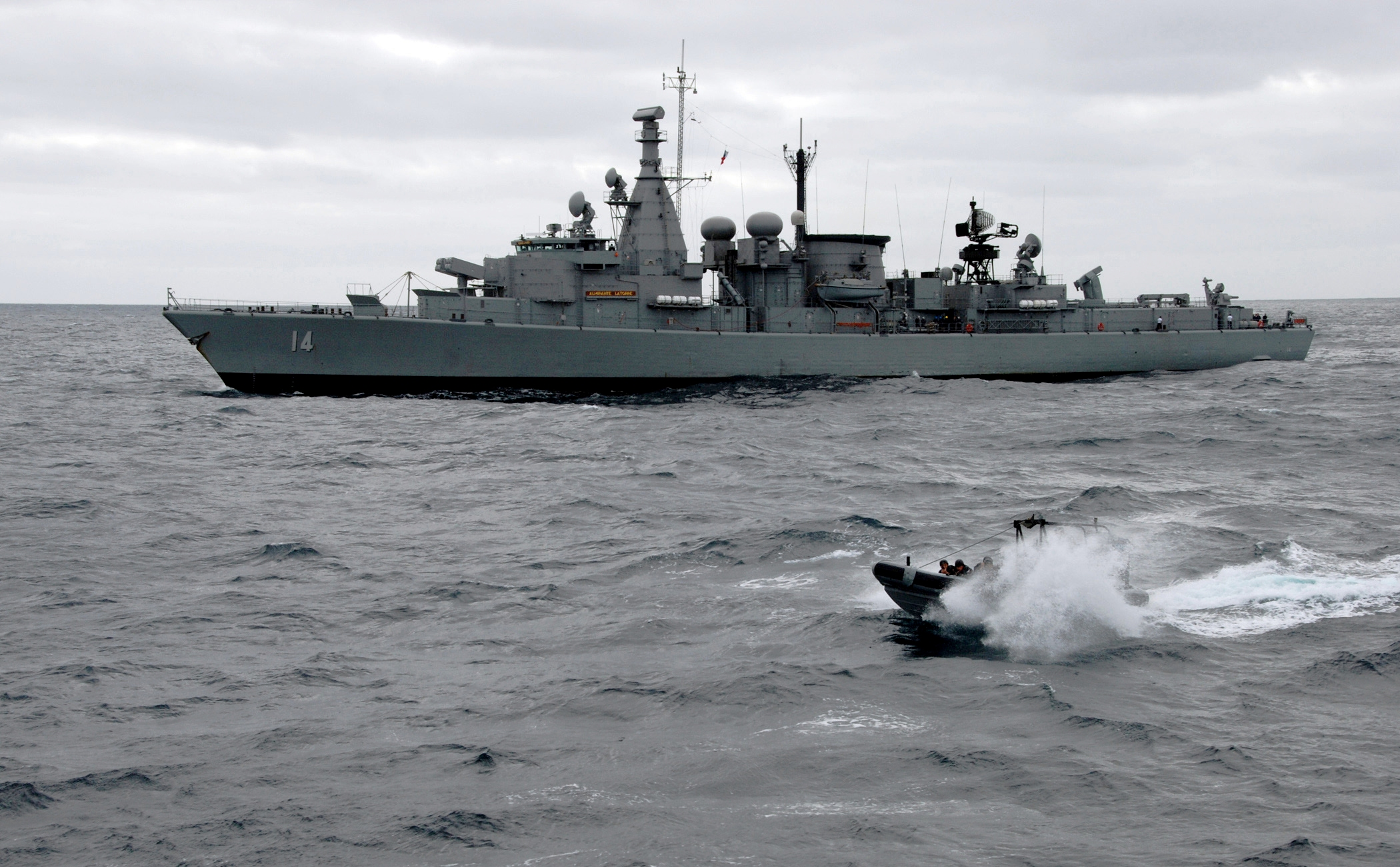 Chilean ship Almirante Latorre (FFG 14) sails forward while members of its vessel boarding search and seizure (VBSS) team make an approach to USS Pearl Harbor (LSD 52) and prepare to engage in VBSS exercises during UNITAS 48-07 Pacific phase June 25, 200 7, while under way in the Pacific Ocean. The multinational naval exercise develops and tests the participating navies' capabilities to respond to a wide variety of maritime missions as a unified force. (U.S. Navy photo by Mass Communication Specialist 3 rd Class Damien Horvath) (Released)